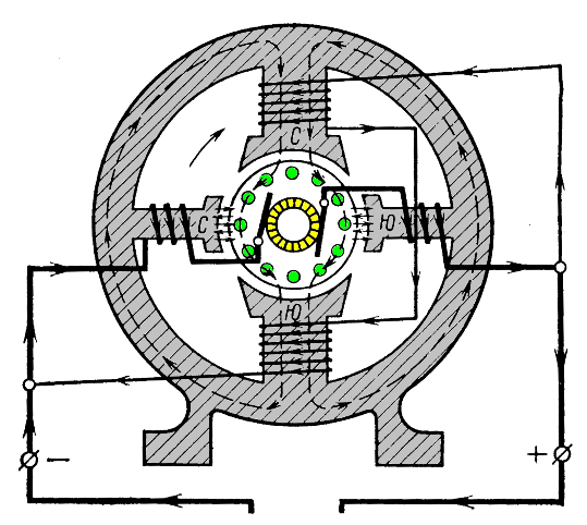 Gidrogenerator qutblari sxemasi